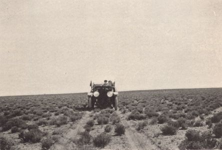 The National Old Trails Road Photo Gallery East of Holbrook, AZ